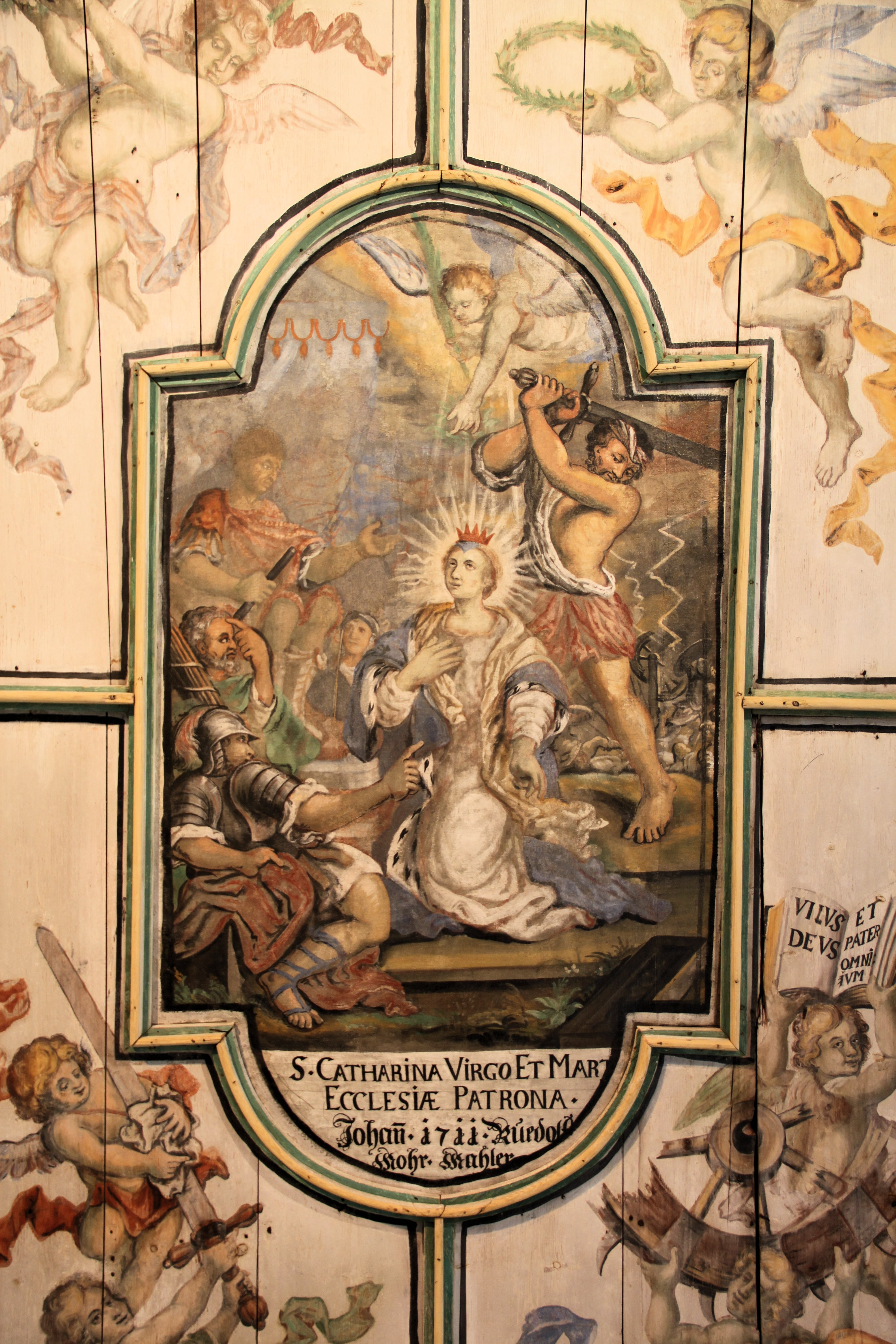 Nusplingen: Decapitation of Saint Catherine of Alexandria (signed by Johann Ruedolf Mohr, 1711) on the coffered ceiling in the nave of Saint Peter and Paul, the former cemetery church of Nusplingen.